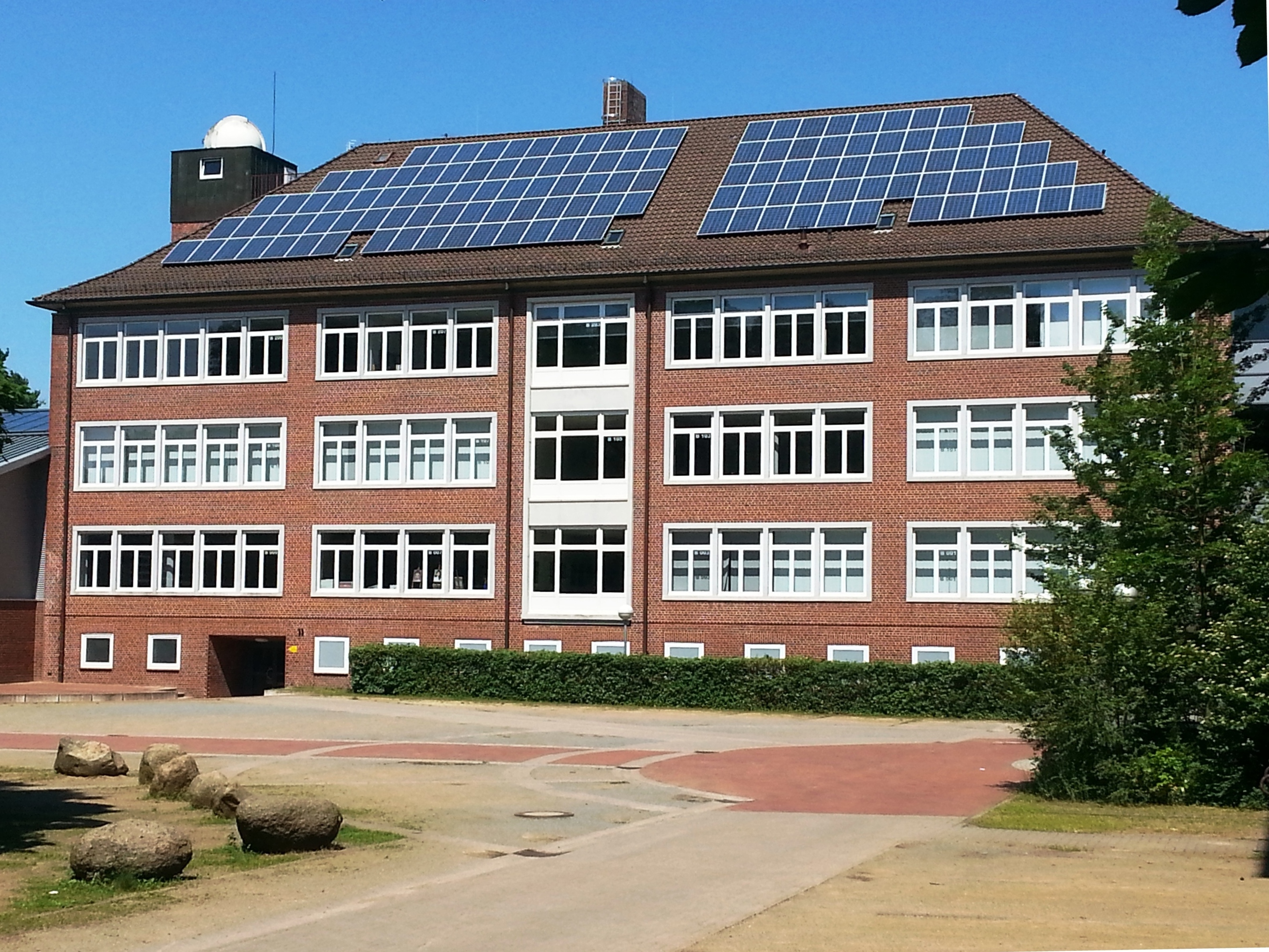 The Gymnasium Athenaeum (i.e. Athenaeum grammar school), established in 1588, in Stade, Lower Saxony, Germany. Mittelbau part (i.e. middle[-aged] building; built in 1958) with its southern façade to the schoolyard. The roof is topped by the school observatory.